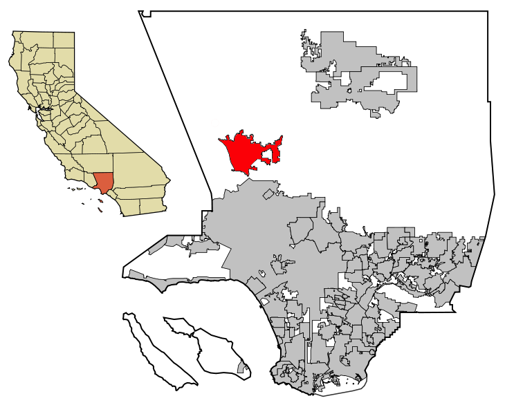 Santa Clarita Valley highlighted